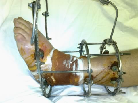 Application of iodopiron solution in trauma medecine